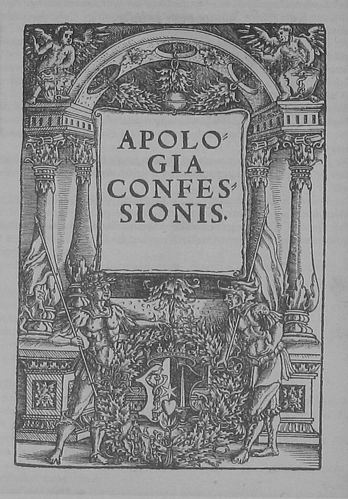 Title page of the Apologia Confessionis Augustanae